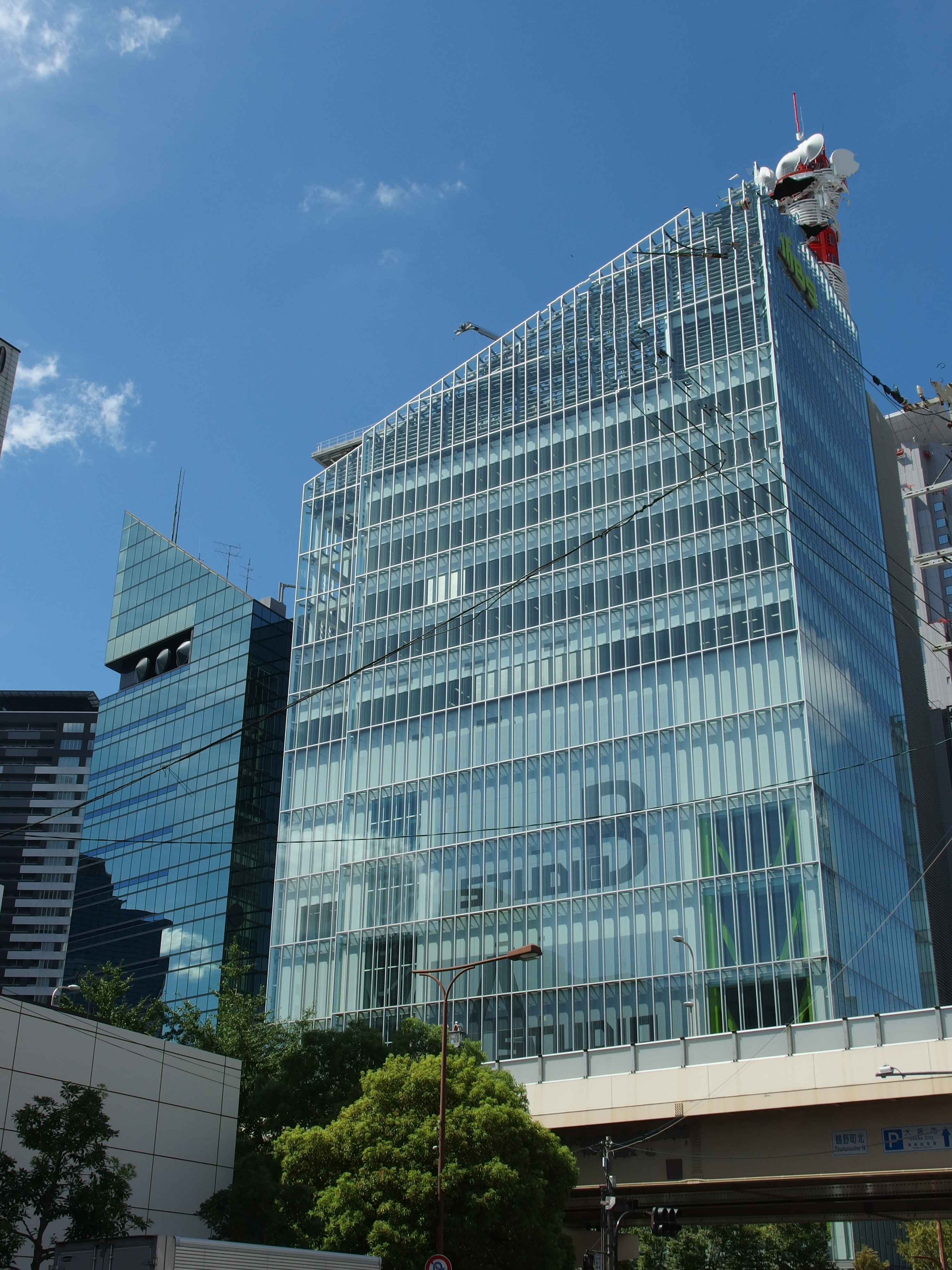 Mainichi Broadcasting System in Osaka, Osaka Prefecture, Japan.